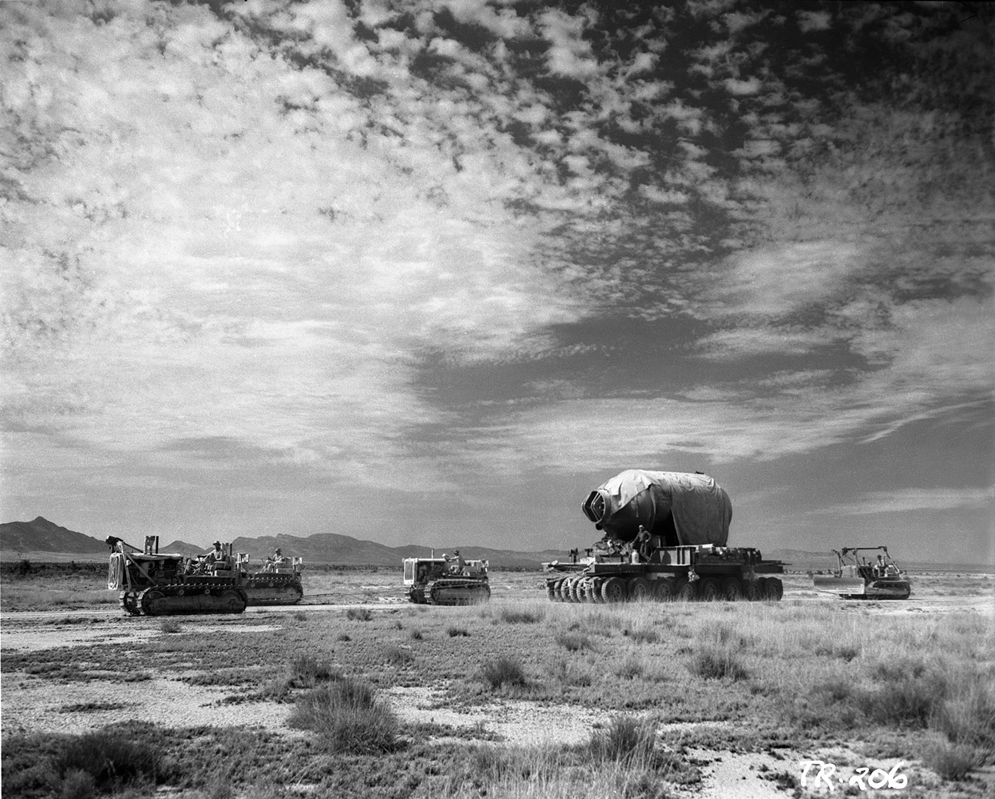 "TRINITY PHOTOGRAPH - Alamogordo, NM - Trinity test, July 16, 1945 - "JUMBO," a 120-ton steel vessel, was designed to contain the explosion of the bomb's high explosive and permit recovery of the active material in case on nuclear failure." (was not used for this purpose during test)